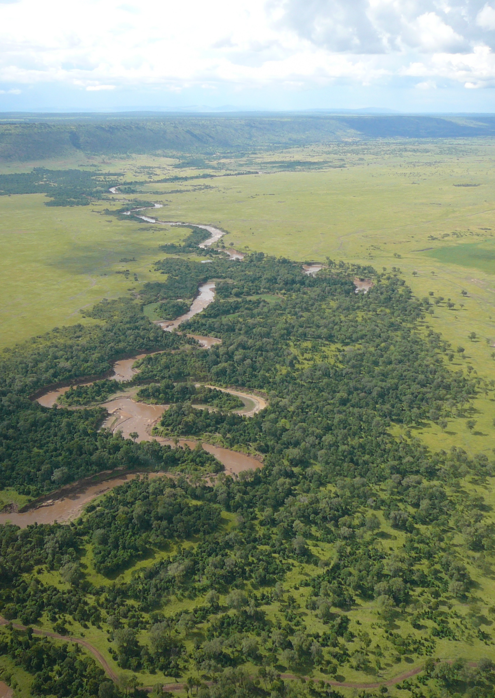 Flight from Masai Mara to Rusinga Island